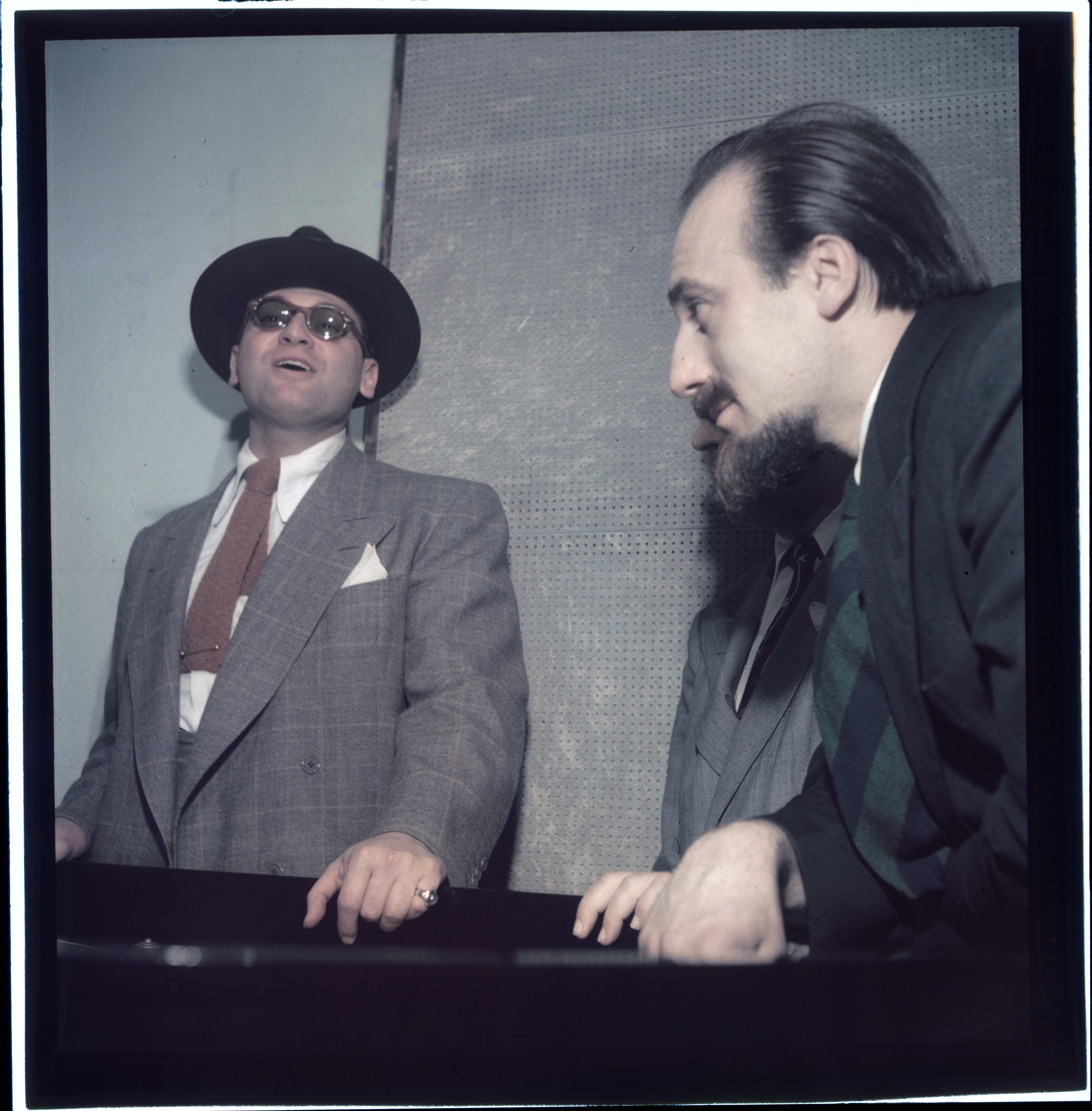 Gottlieb, William P., 1917-, photographer. [Portrait of Frankie Laine and Mitch Miller, New York, N.Y., between 1946 and 1948] 1 transparency : film, color. ; 2 1/4 x 2 1/4 in. Notes: Gottlieb Collection Assignment No. 196 Purchase William P. Gottlieb Forms part of: William P. Gottlieb Collection (Library of Congress). Subjects: Laine, Frankie, 1913- Miller, Mitch Jazz musicians--1940-1950. Jazz singers--1940-1950. Conductors (Music)--1940-1950. Format: Portrait photographs--1940-1950. Group portraits--1940-1950. Film transparencies--1940-1950. Rights Info: Mr. Gottlieb has dedicated these works to the public domain, but rights of privacy and publicity may apply. Repository: (transparency) Library of Congress, Prints & Photographs Division, Washington D.C. 20540 USA, Part Of: William P. Gottlieb Collection (DLC) 99-401005 General information about the Gottlieb Collection is available at Persistent URL: Call Number: LC-GLB04- 1342 This work is from the William P. Gottlieb collection at the Library of Congress. Rights and restrictions.In accordance with the wishes of William Gottlieb, the photographs in this collection entered into the public domain on February 16, 2010.